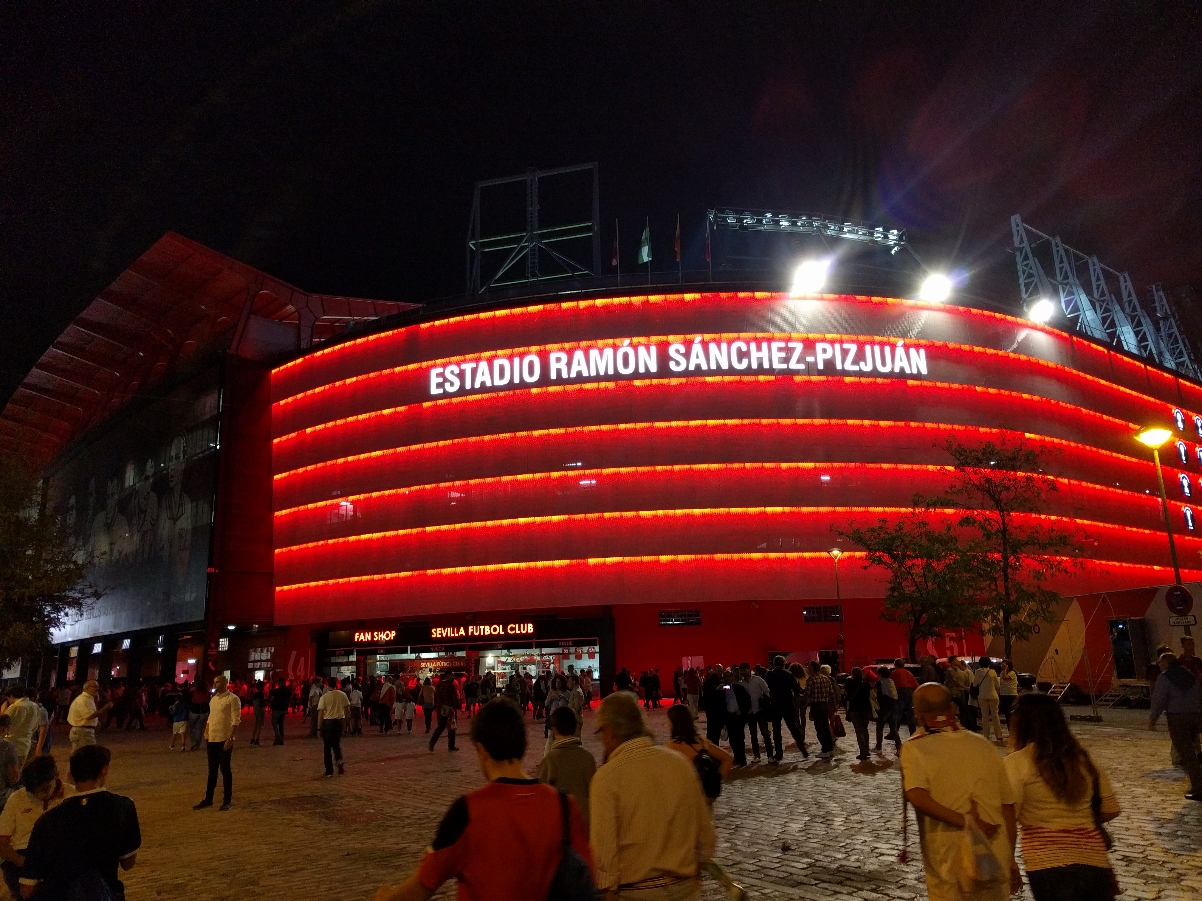 Match of Primera División, LaLiga 2017-18, Sevilla FC 2:1 CD Leganés, Ramón Sánchez Pizjuán